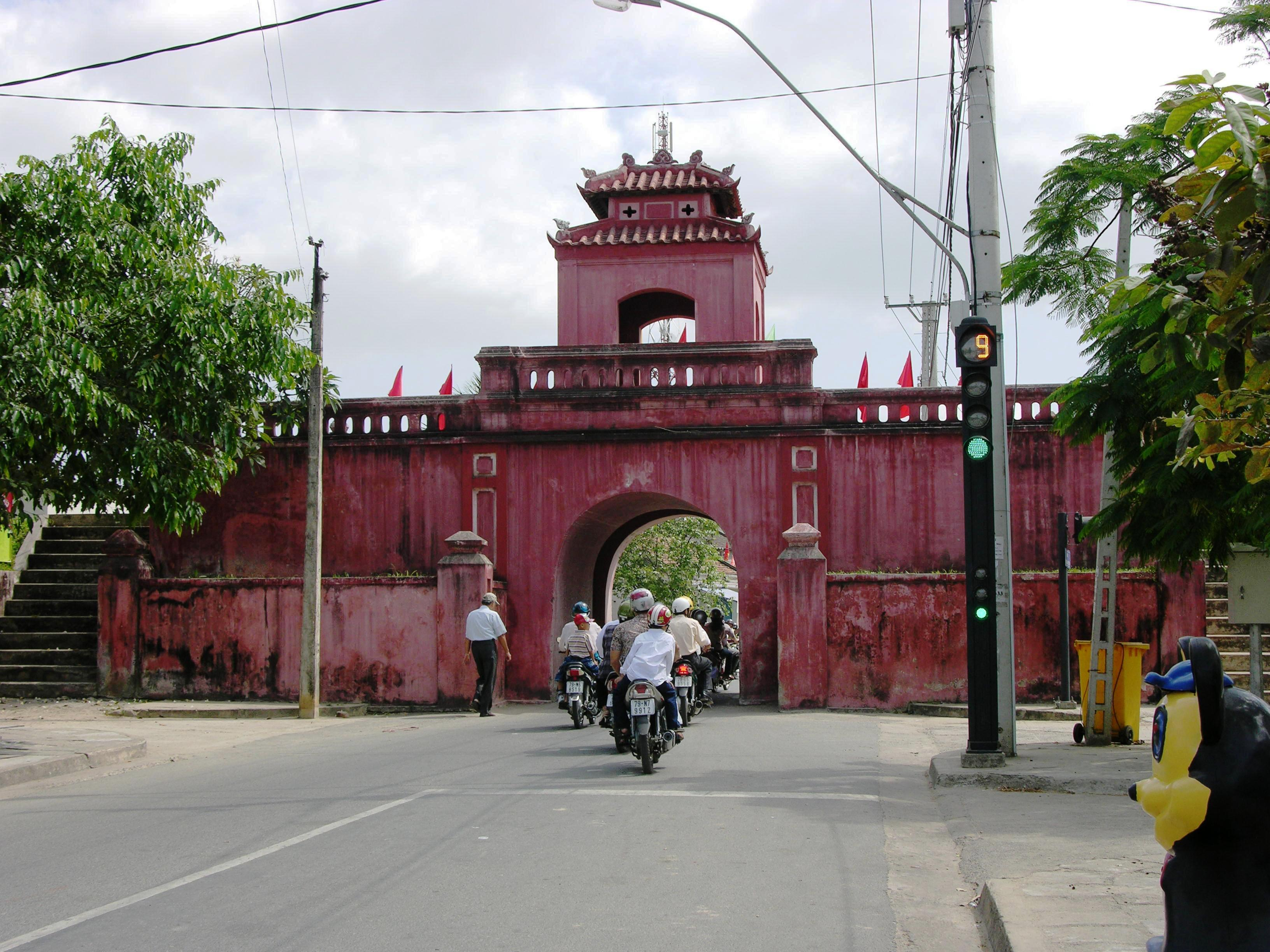 The gate from old tower at the east of Dien Khanh, Viet Nam, photo from behind, as you can see the stair to the tower